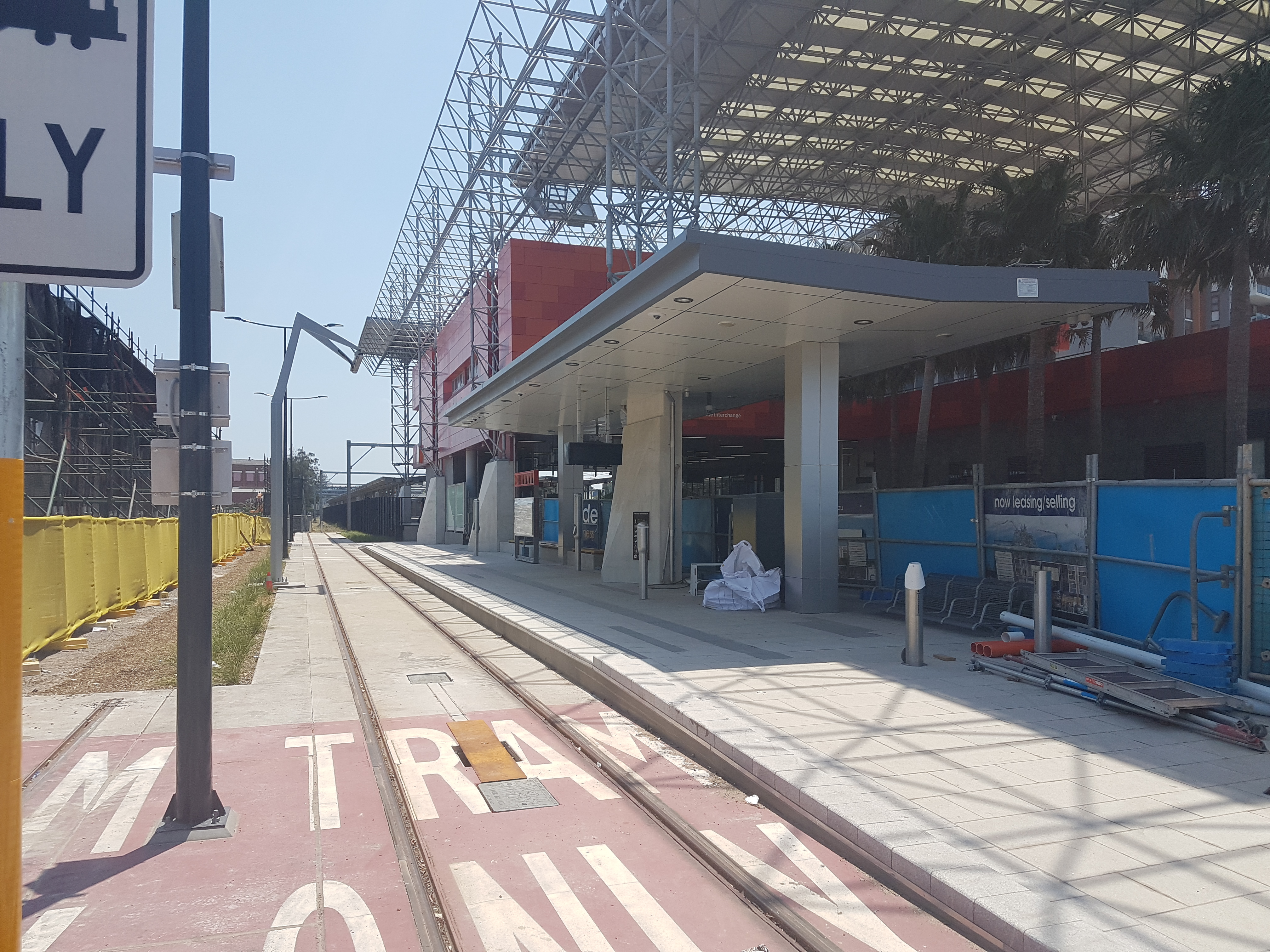 Newcastle Light Rail Newcastle Interchange station